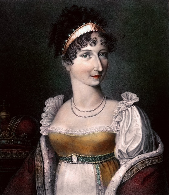 Maria Ludovica of Austria, empress of Austria